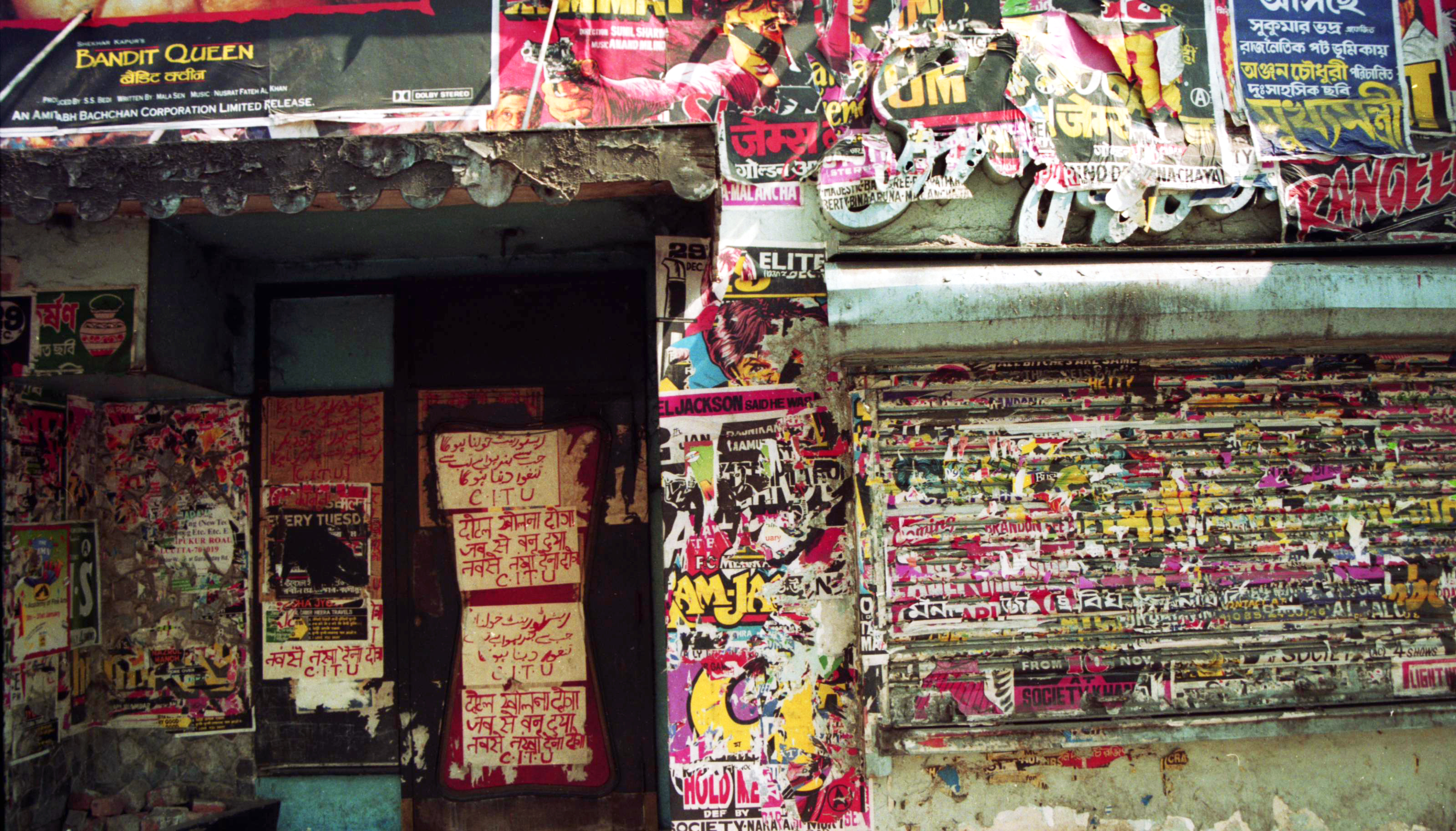 Entrance of a cinema (movie theatre) in Kolkata.